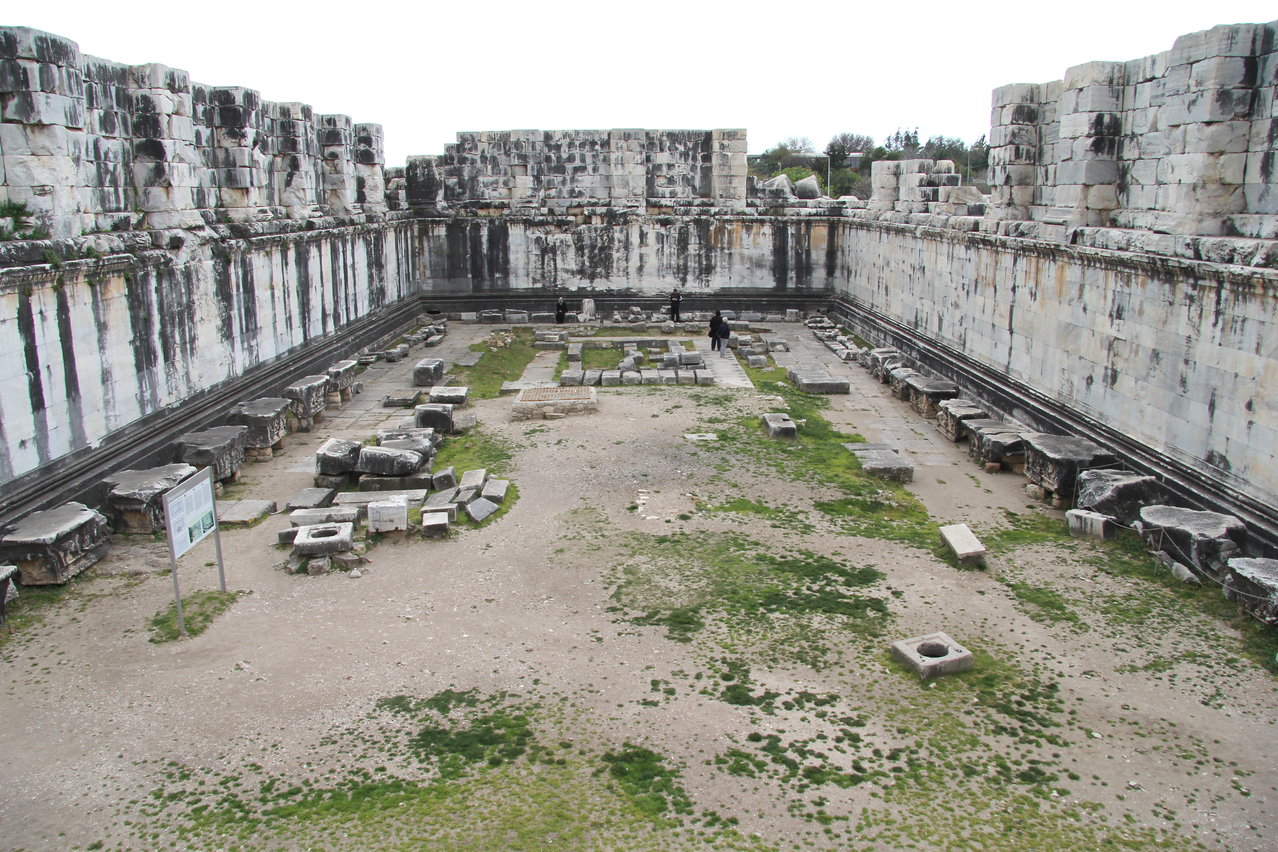 Didyma, an ancient Greek sanctuary with a temple and an oracle at the Western coast of Asia Minor in Turkey